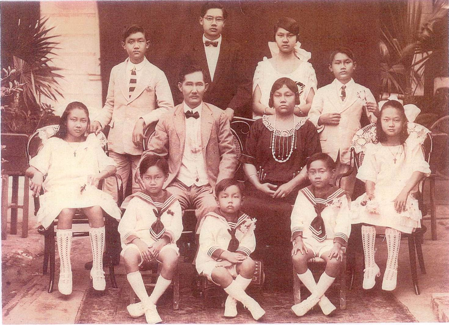 Top: Herman, Eduard, Henriette, Leonard Middle: Agnes, Rudolf J., Elisabeth, Angeline Bottom: Arthur, Rudolf P.B., Raymond Suriname Circa 1923-1925